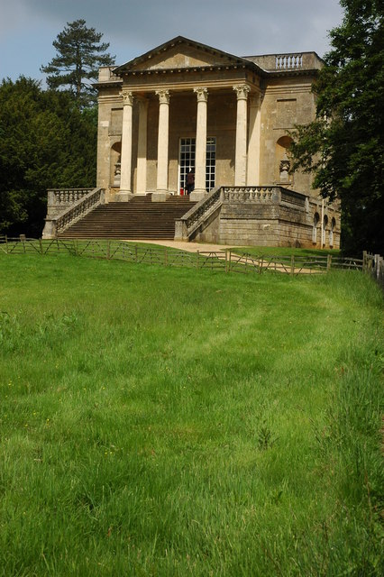 The Queen's Temple, Stowe